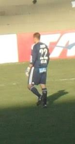 Goalkeeper Eliton Deola playing for Palmeiras.